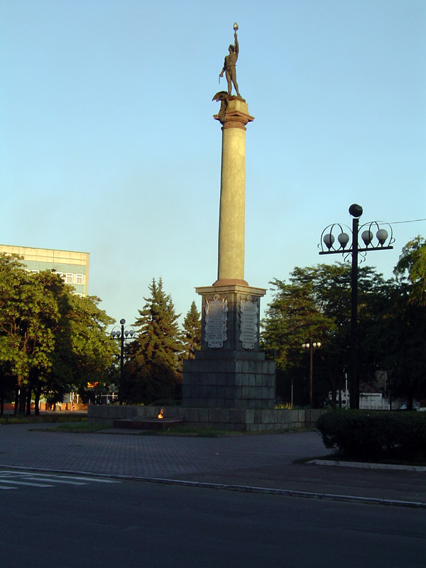 Symbol of Dniprodzerzhynsk — Prometheus unchained.